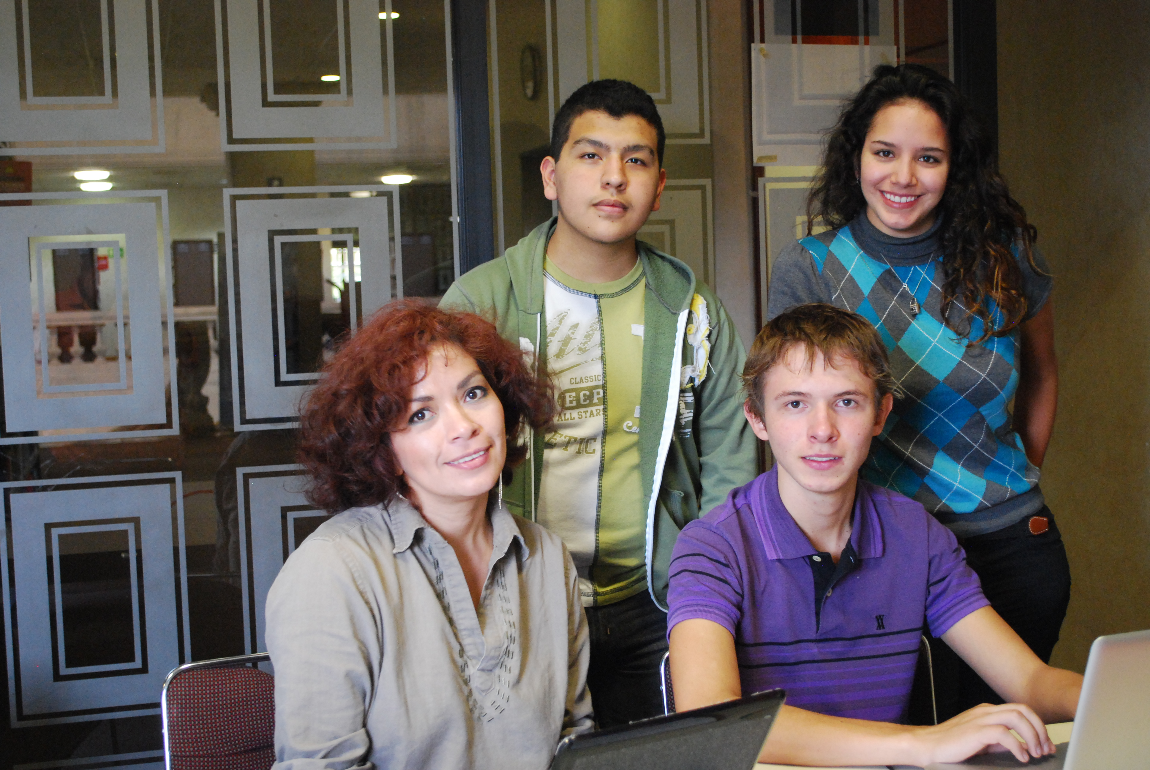 Iris Atma with students from the IB CAS Wikipedians working during the Fall 2012 semester at ITESM-Campus Ciudad de Mexico